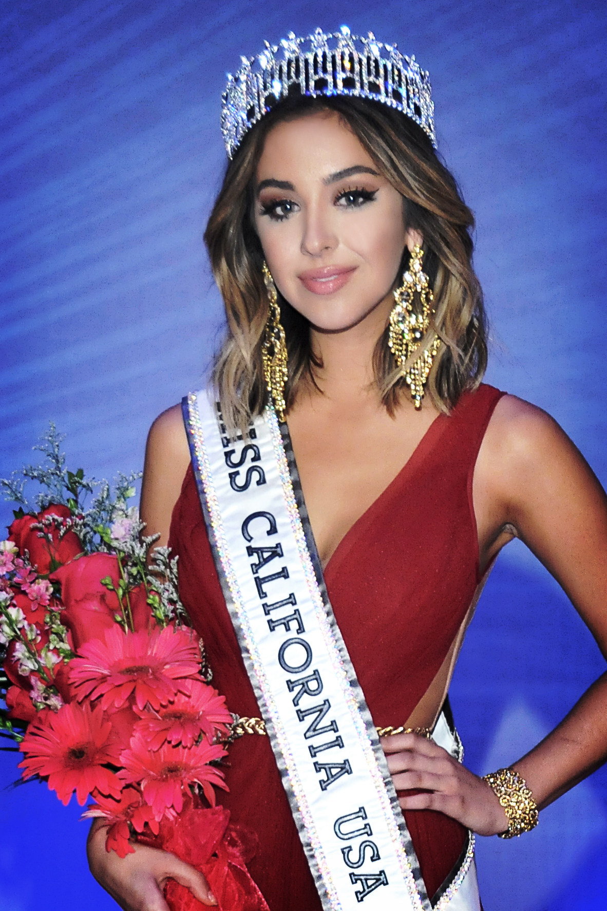 Nadia Mejia, Miss California USA. Photo taken at Long Beach, California on December 6, 2015 - Photo by Glenn Francis of